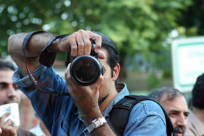 Ahmad Batebi